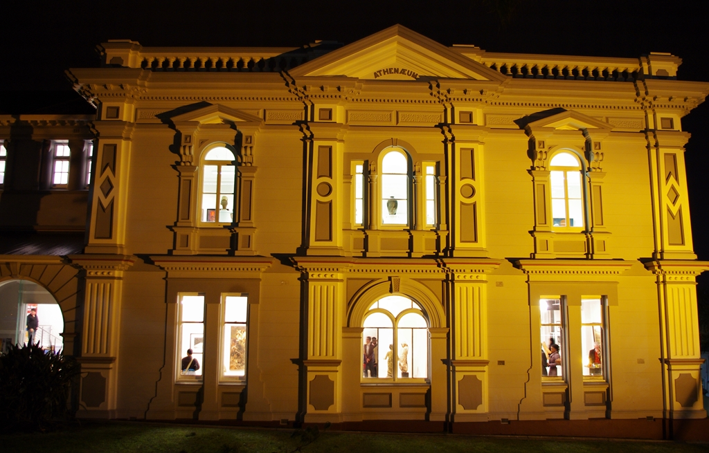 photo by Max Hoppe, used with permission. Atheneum Club, Belmont Terrace, Port Elizabeth This media shows a South African Protected Site with SAHRA file reference 9/2/073/0030.